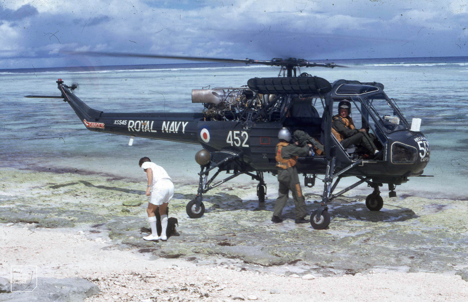 Aldabra Marine Westland Wasp helicopter of HMS Galatea (F18) landing in the Aldabra atoll, Seychelles